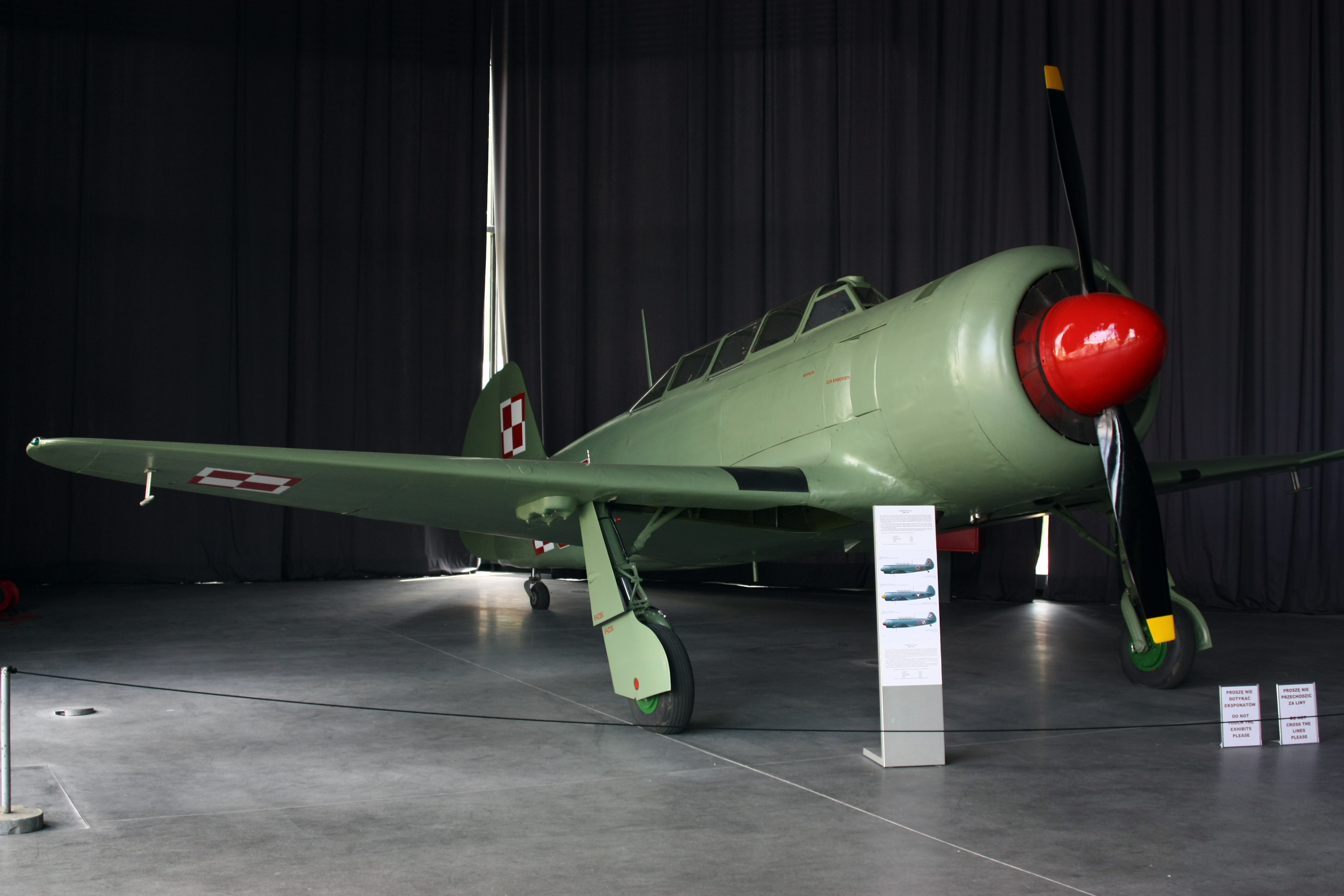 Jakowlew Jak-11 from the collection of the Aviation Museum in Krakow